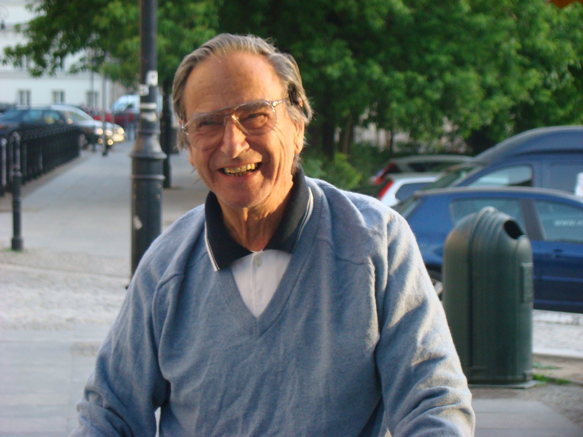 John Crook in Warsaw after his last retrat in Poland.